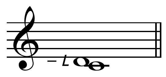 Septimal major second on C = D- (Ben Johnston's notation). 8:7 = 231.17 cents. Limit: 7-limit.